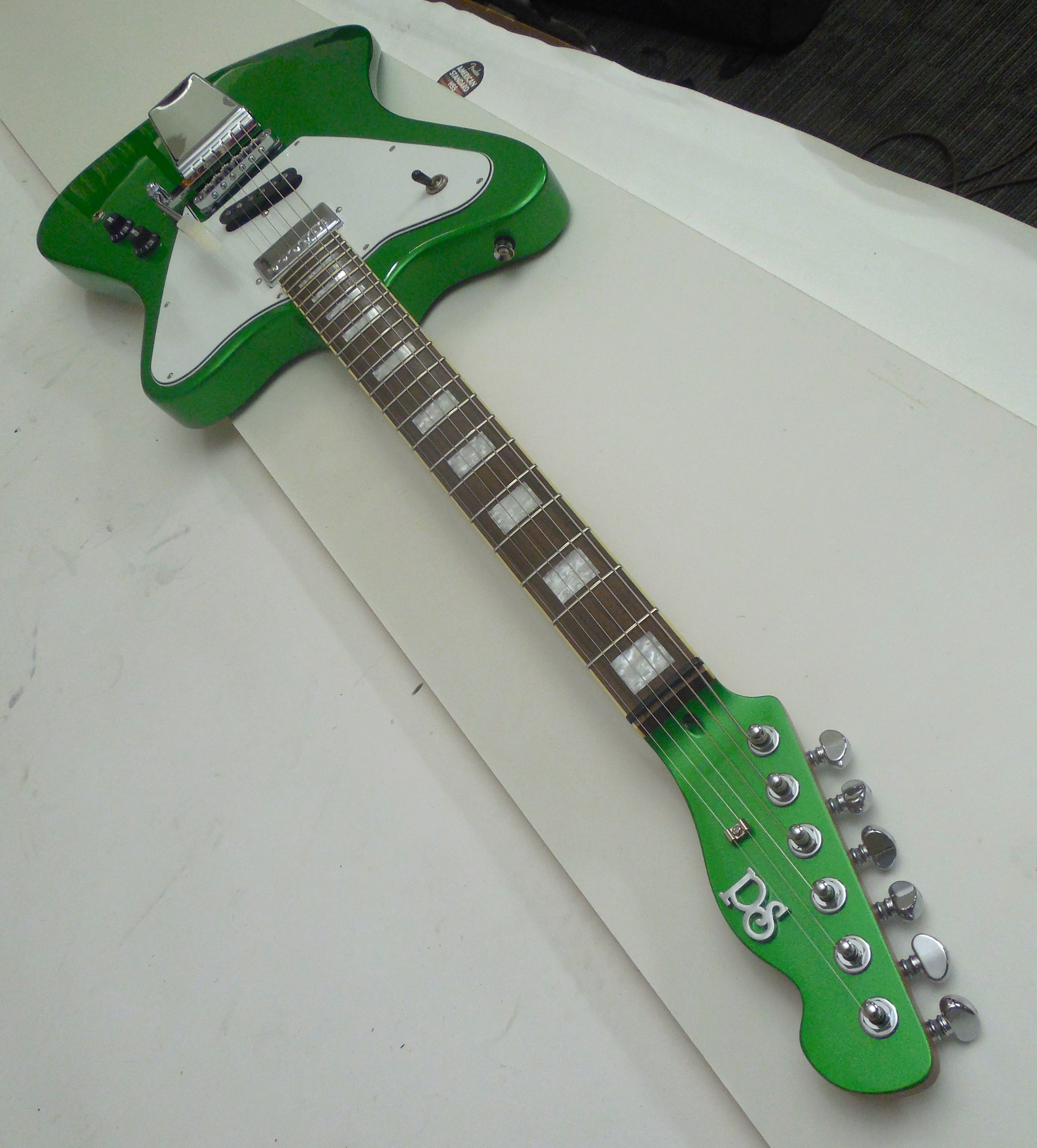 PureSalem ~ Cardinal electric guitar with mahogany body, rosewood fretboard, and matching headstock, 2015